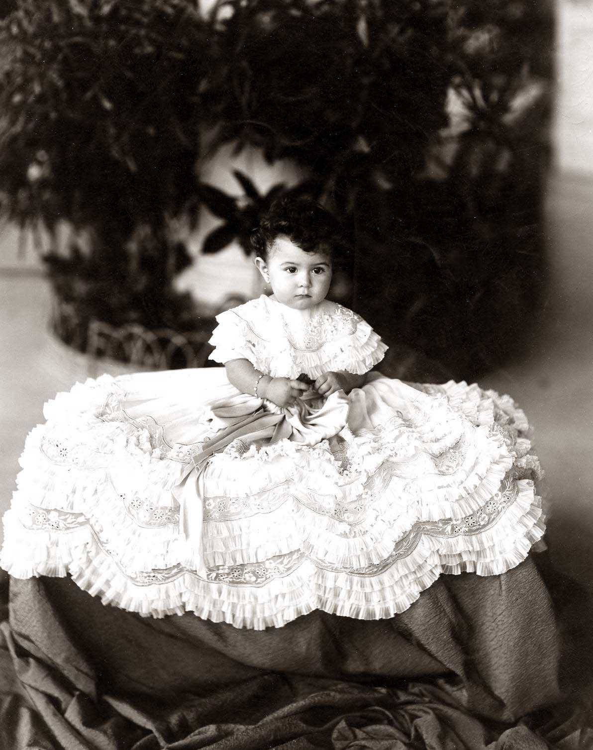 Princess Ferial of Egypt in a white silk dress.